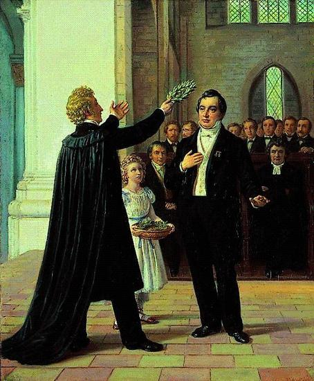 Adam Oehlenschläger is publicly crowned with laurel by the Swedish poet Esaias Tegner in front of the high altar in Lund Cathedral , as the "Scandinavian King of Song.". The event cements his position as the leading proponant of Romanticism in the region and in the same time heralds the emergence the Scandinavismmovement